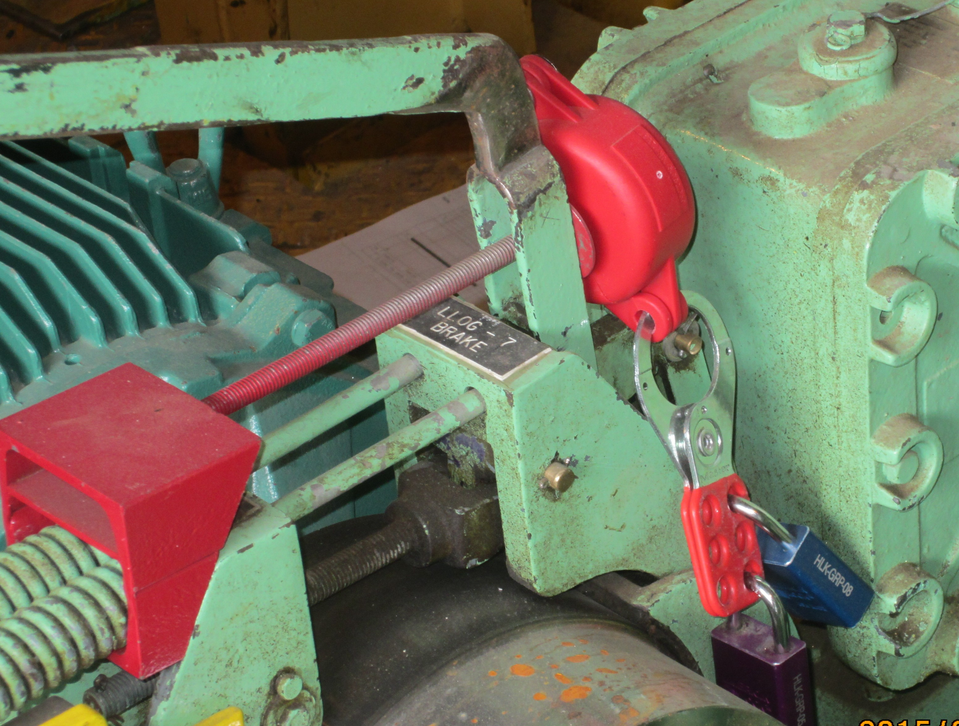 A lockout device applied to a hoist brake. The device prevents manual or electrical release of the brake. This prevents unexpected movement of the hoist mechanism. This hoist is used for a spillway gate. The lockout device is held in place with a lockout scissors and secured with two padlocks. In this plant, one padlock is placed initially to secure the device, and the second padlock indicates that the lockout has been checked and verified.